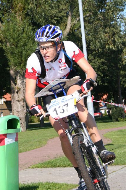 This work is free and may be used by anyone for any purpose. If you wish to use this content, you do not need to request permission as long as you follow any licensing requirements mentioned on this page.